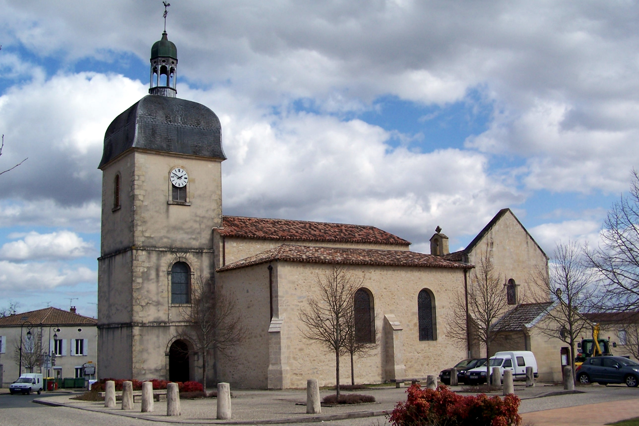 Church Saint-Martin of Landiras (Gironde, France)